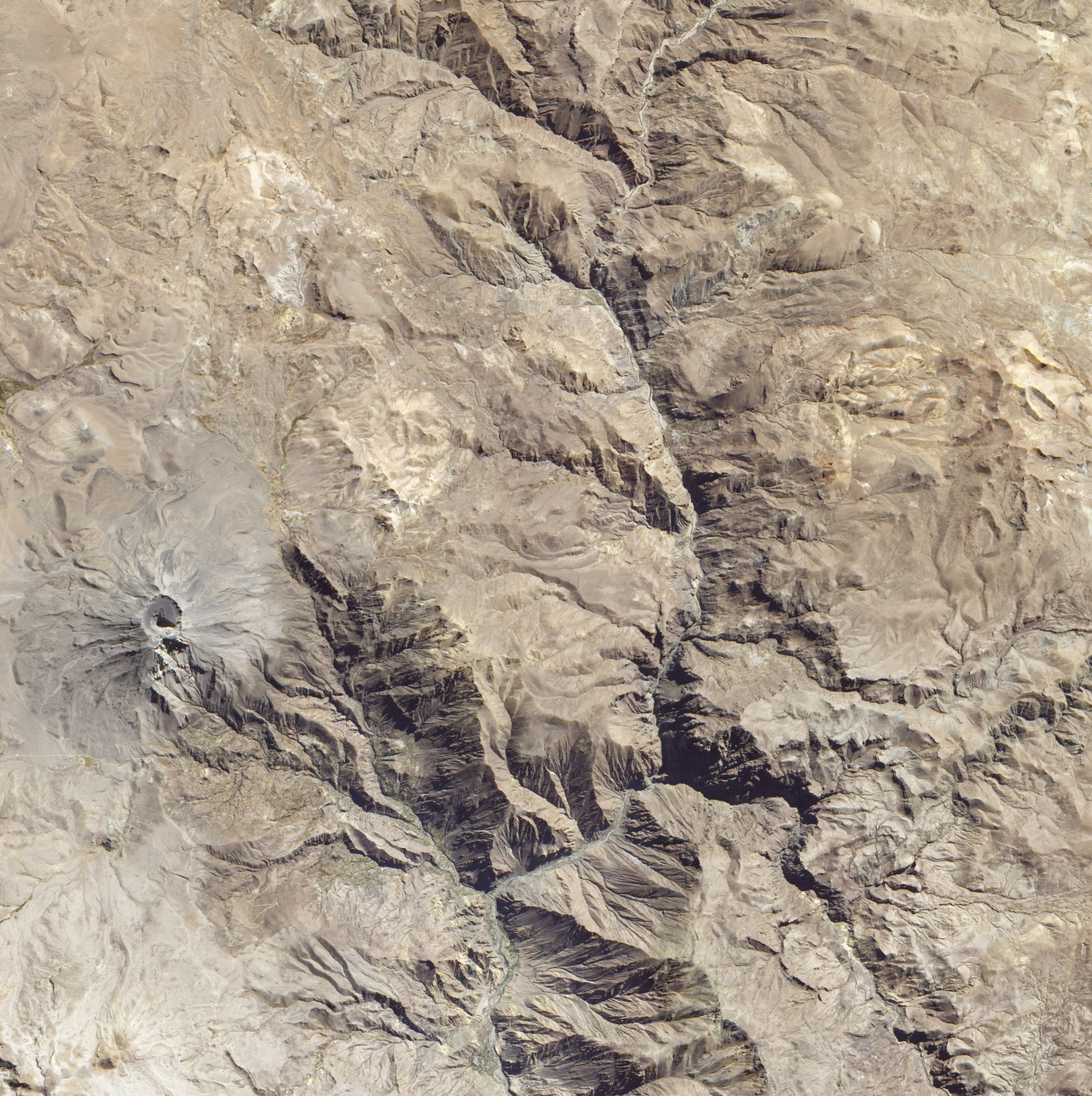 True-colour image of Ubinas volcano. As a result of its frequent activity, the steeply sloped peak is coated with lava. A canyon on the southern slope is evidence of a collapse in the volcano’s past. A small circular caldera crowns the volcano. A little more than a kilometre across, the caldera is defined by walls that range from 80 to 300 meters high. Dark-coloured ash and tiny volcanic rocks (lapilli) carpet the crater floor. An ash cone rises from the centre of the crater, casting a dark triangular shadow. Within the shadow of the ash cone lies a white, funnel-shaped inner crater that is 200 meters deep.